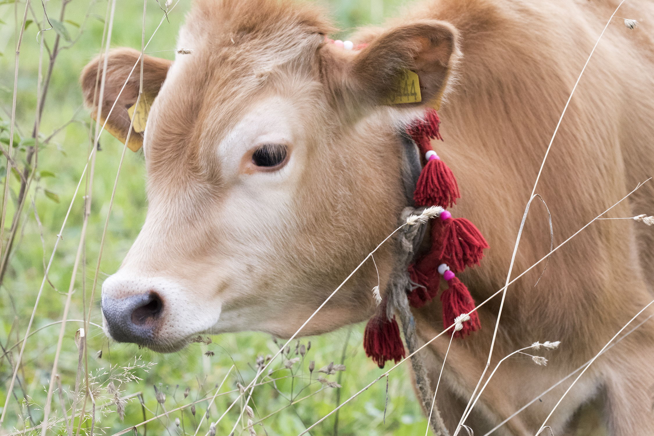 A Jersey heifer grazing at the meadows of Sisdağı in Gökçeköy, Şalpazarı - Trabzon, Turkey.